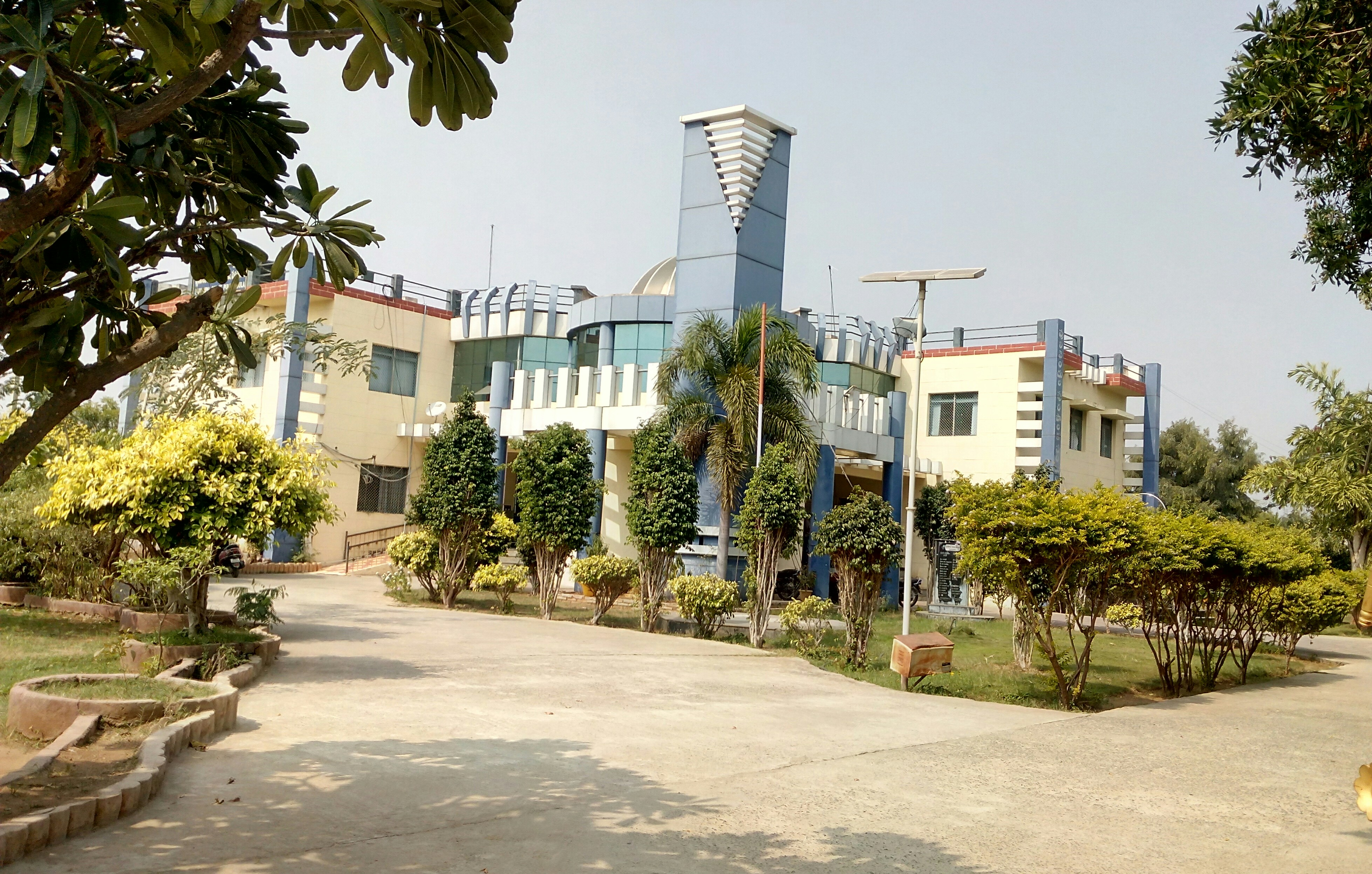 Muncipal Office Building